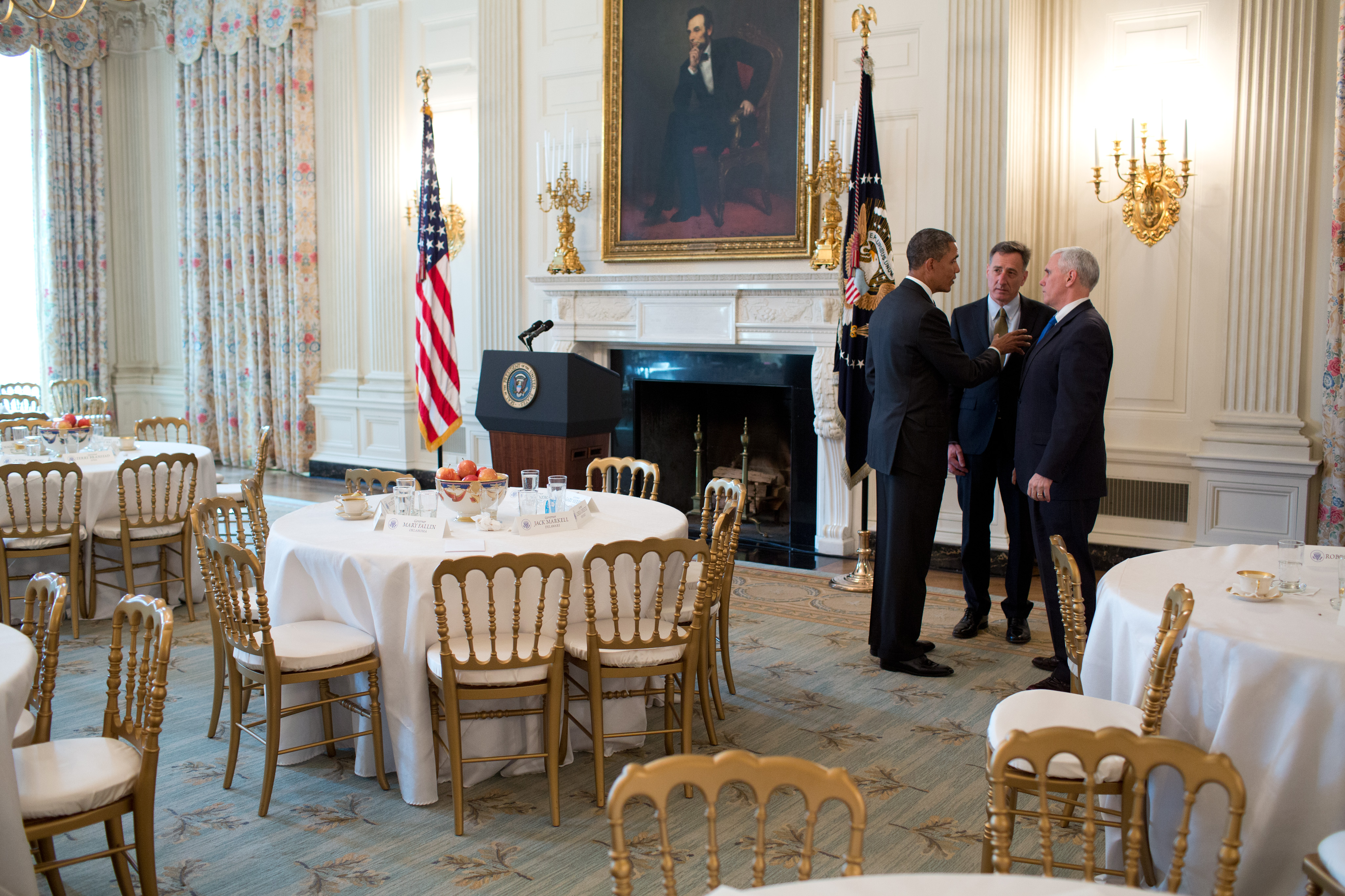 United States President Barack Obama talks with Governor Peter Shumlin of Vermont, centre, chair of the Democratic Governors Association, and Governor Mike Pence of Indiana, after a meeting with the National Governors Association in the State Dining Room of the White House on 25 February 2013.